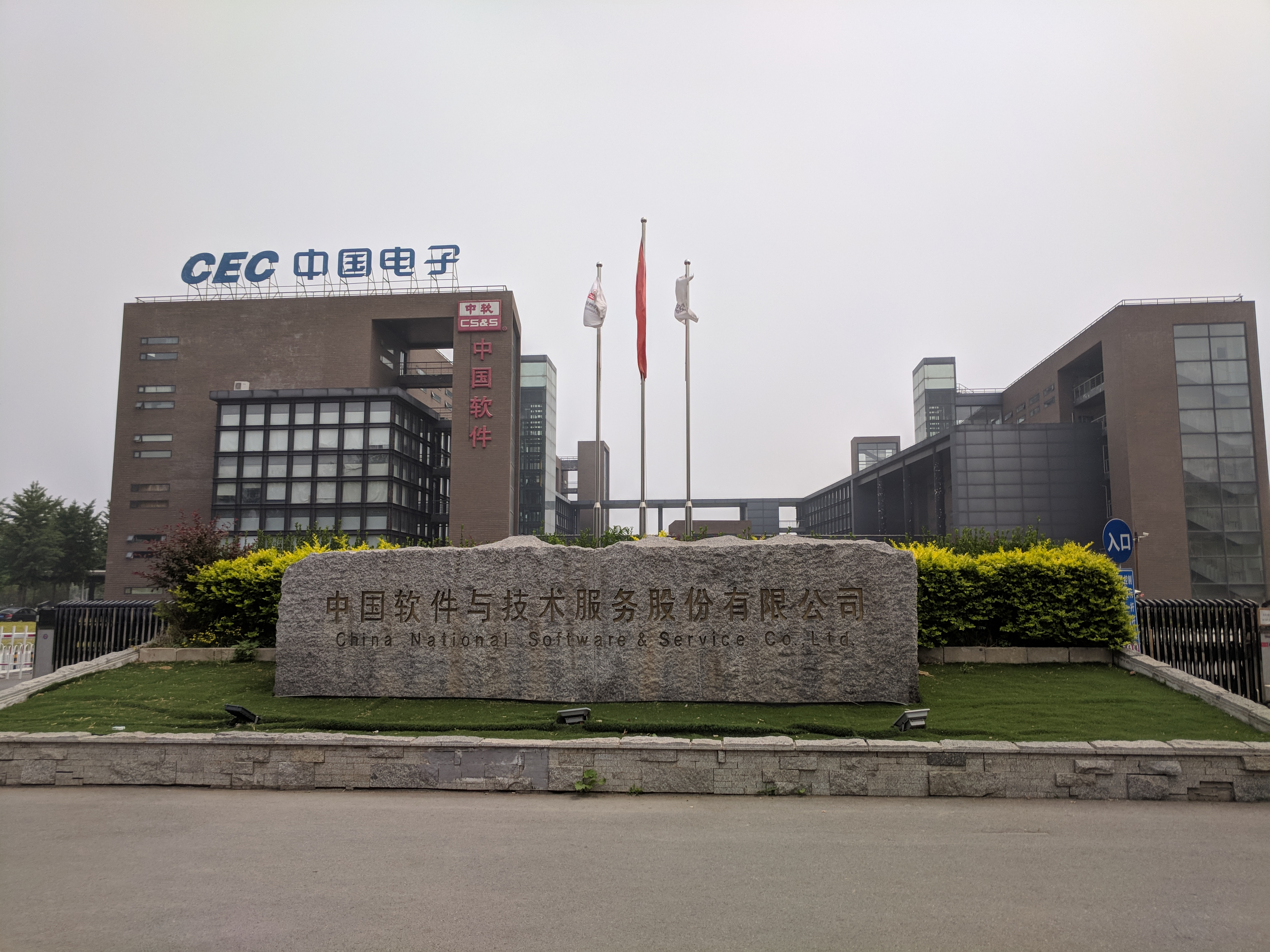 China National Software & Service Co., Ltd. in Changping District. (The data production base of AutoNavi Software Co., Ltd.)